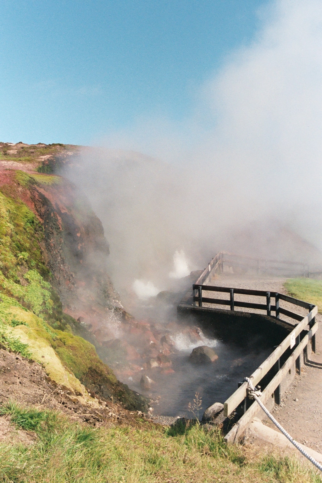 The Deildartunguhver hot spring Author: Johann Dréo (User:Nojhan) Date: 2004, july Notes: Near Reykholt, in Iceland. Size : 1536 x 1024, digitalized from an argentic film.